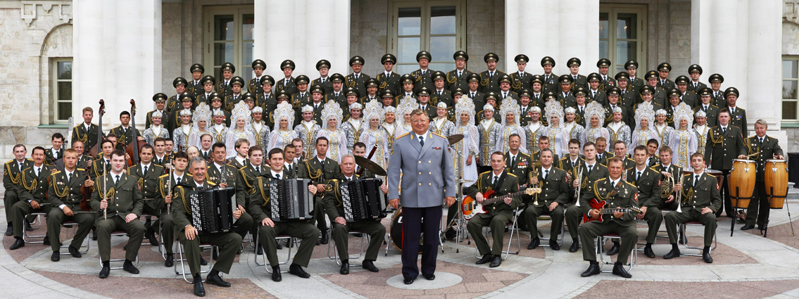 All artists of Academical ensemble IF MIA RF